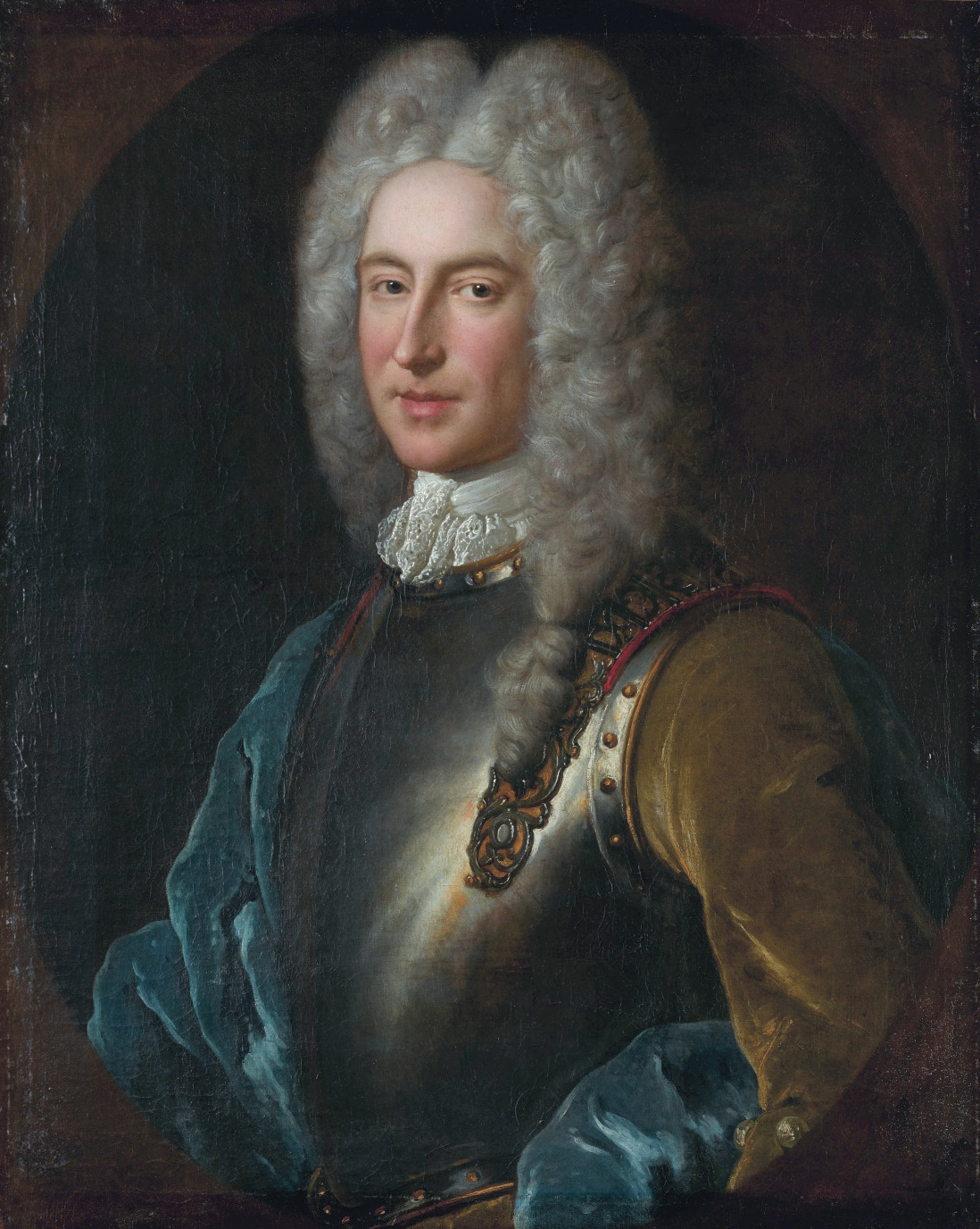 Alexander, 4th Lord Forbes of Pitsligo (d. 1762) oil on canvas 80.8 x 64.3 cm signed verso: peint a Paris. par. AS Belle / Janvier. 1720..